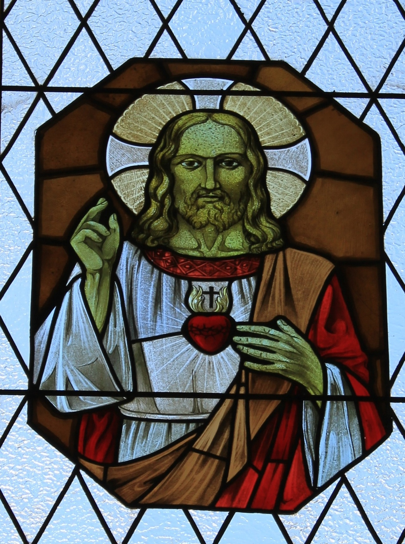 Saint-Niclaus-church in Liesing in the community Lesachtal - stains glass window - detail